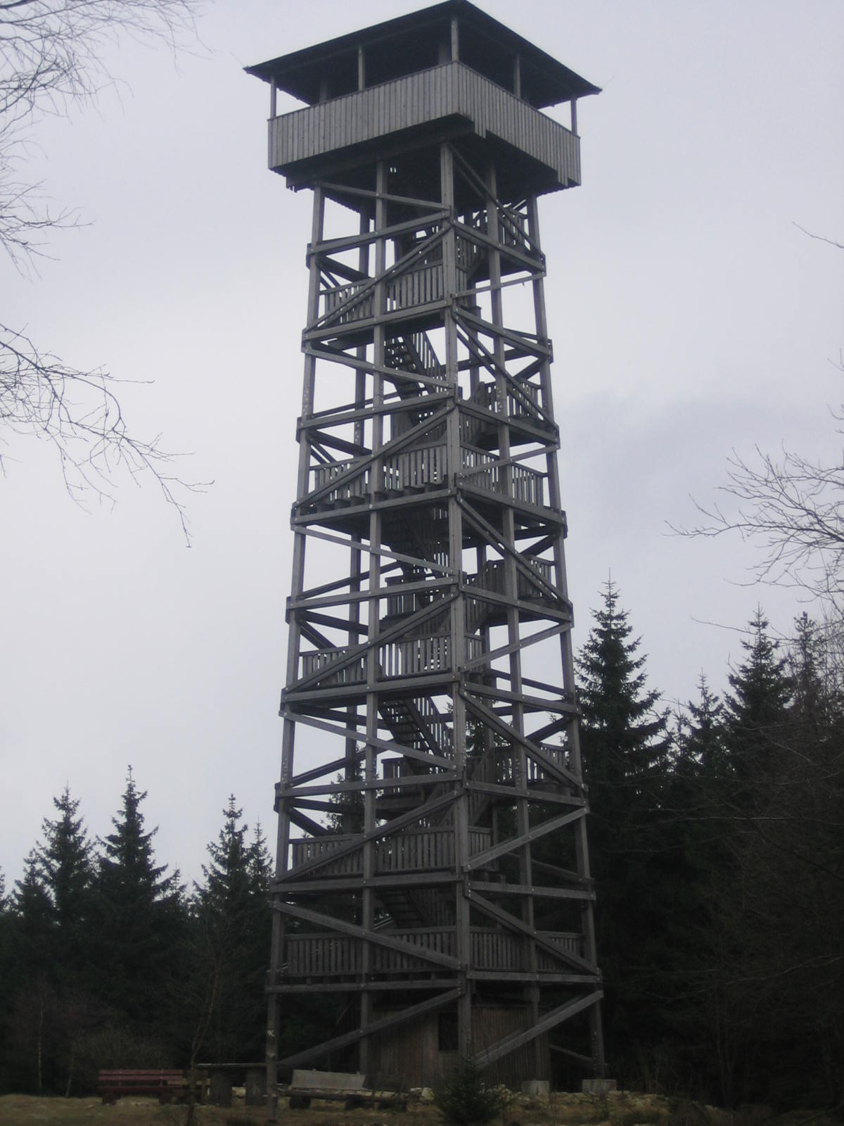 Observation tower on Wüstegarten mountain, Hesse, Germany.